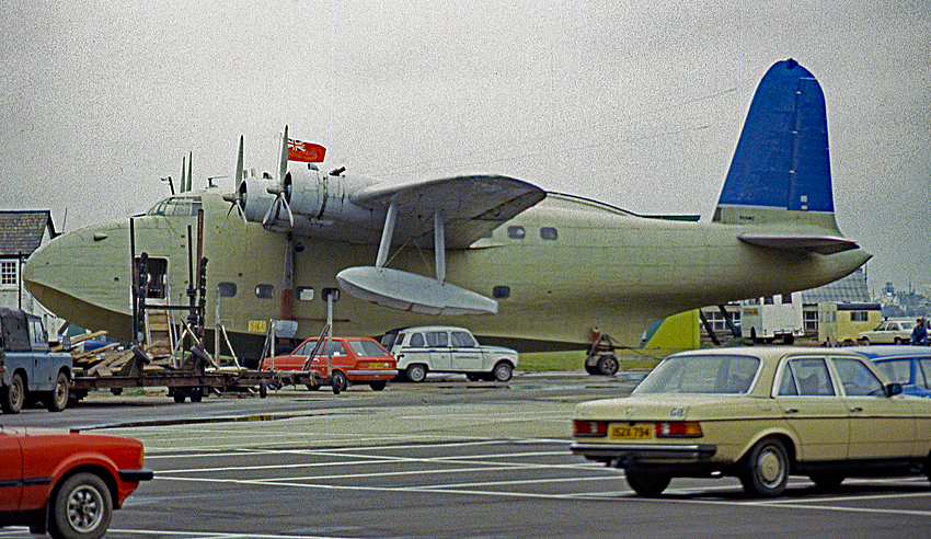 Short Sandringham "Southern Cross" being restored at Calshot. Scanned from a Kodachrome 35mm slide.